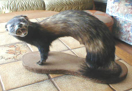 stuffed wild european polecat (Mustela putorius), killed by car in a Wallonian forest. Walon: epayî vexhåd.